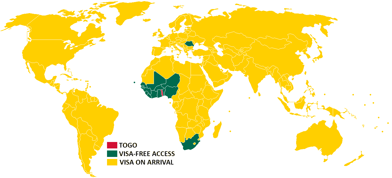 Visa policy of Togo Togo Visa-free access Visa on arrival